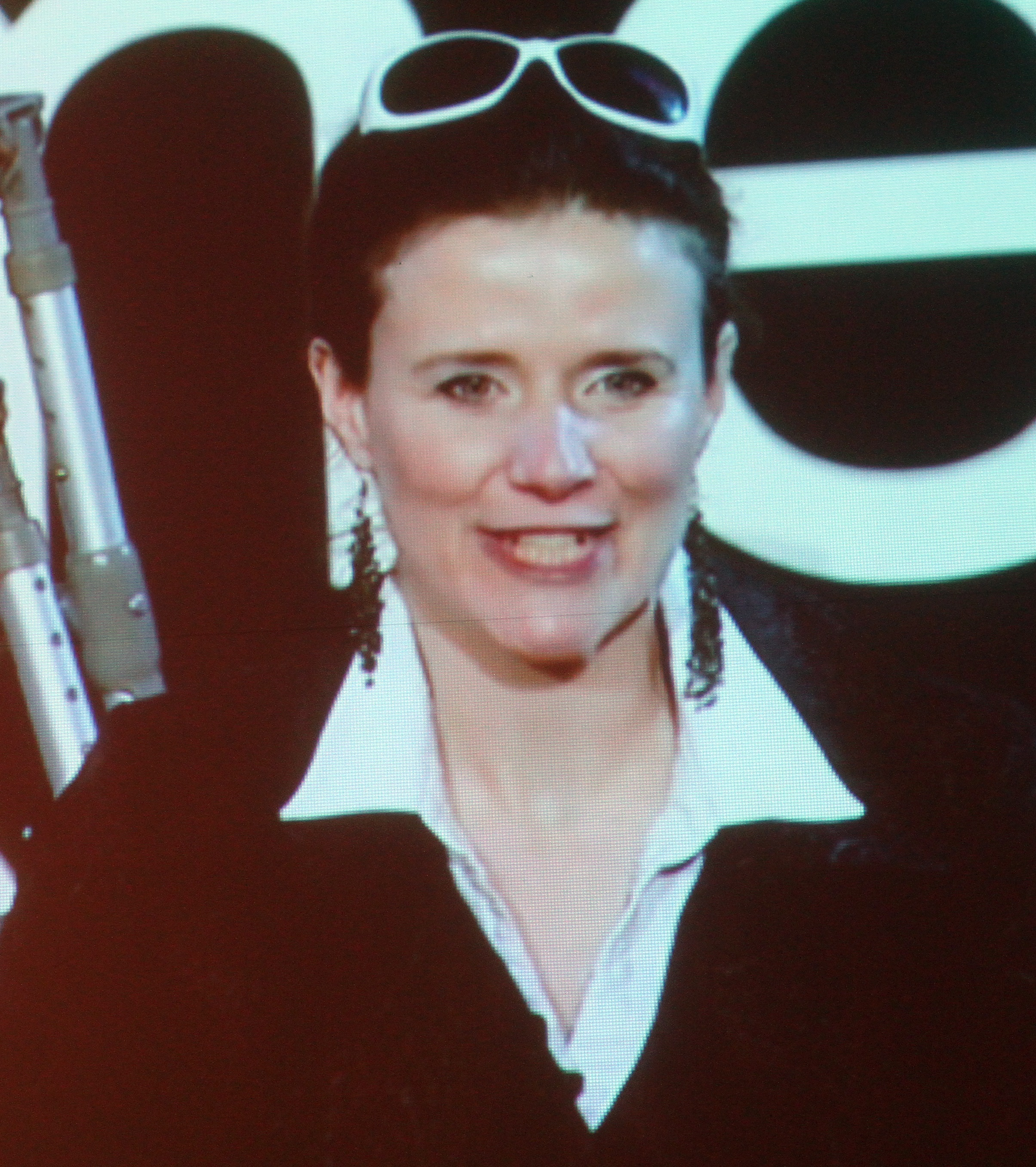 Sue Austin gives a talk to TEDx Monterey's Leading Out via a video screen.